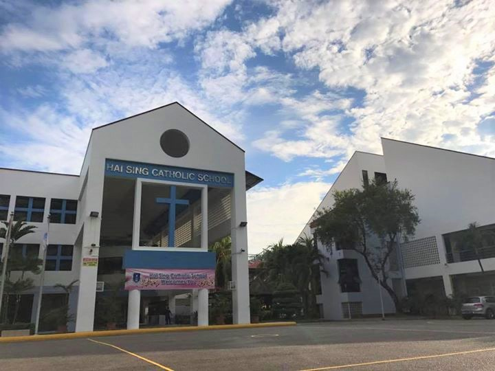 This file represents the school's exterior view.